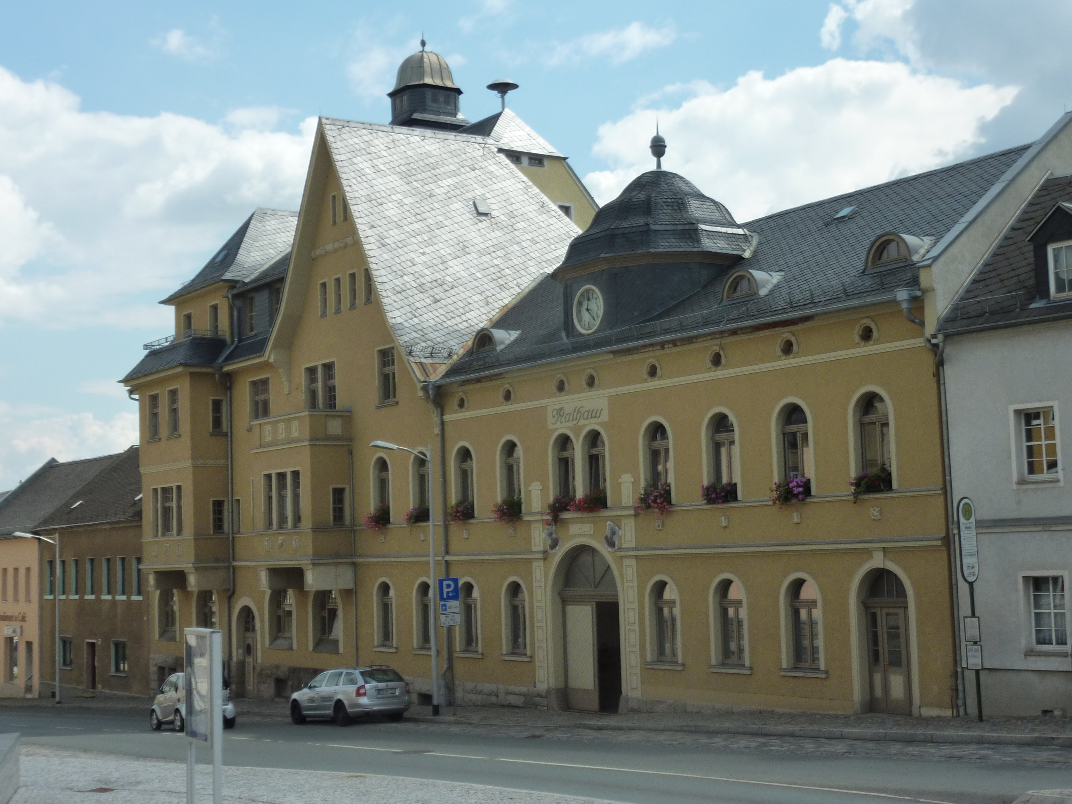 Netzschkau, Vogtland, Germany: town hall